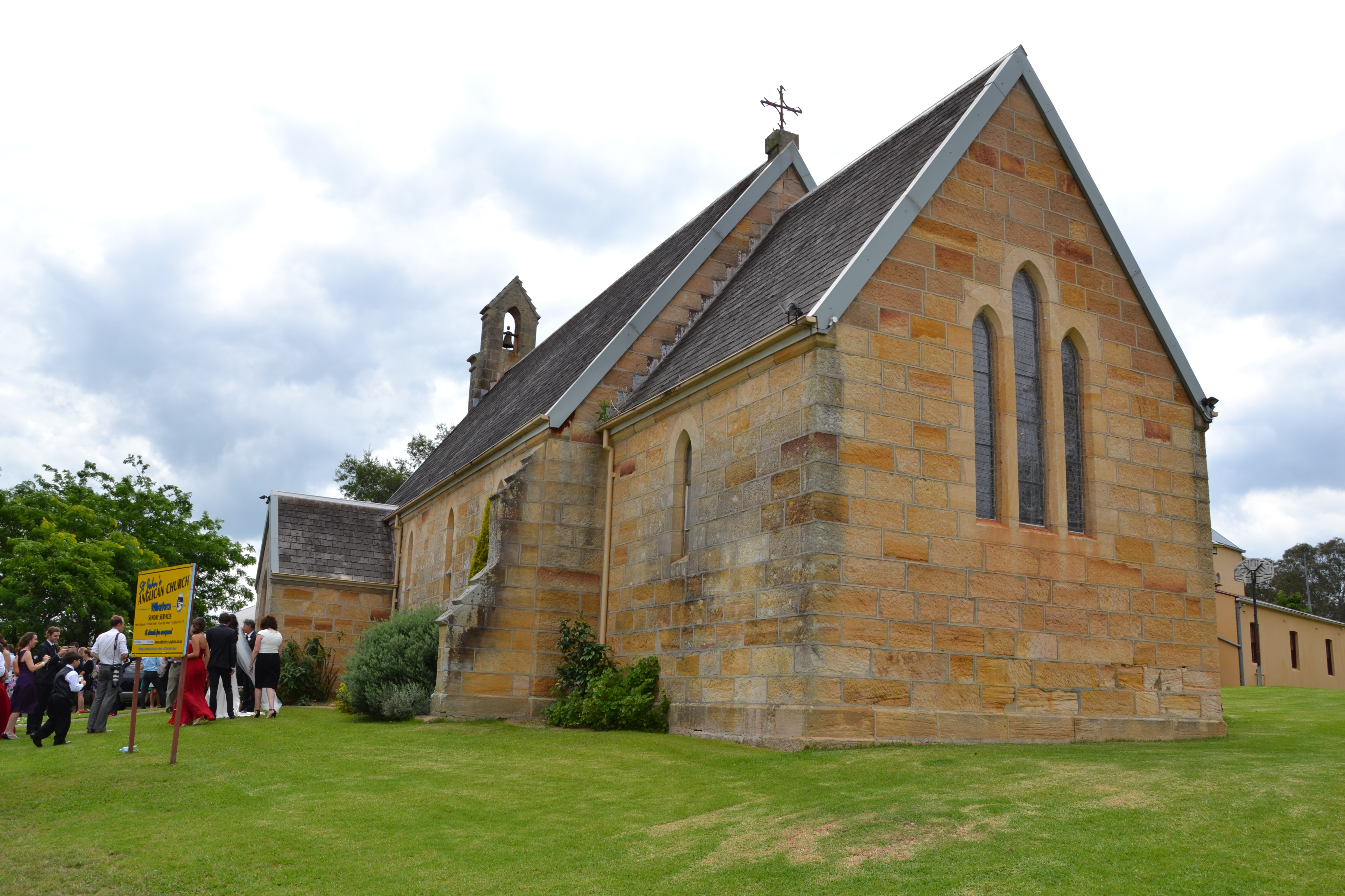 Stunning old sandstone church in Wilberforce.